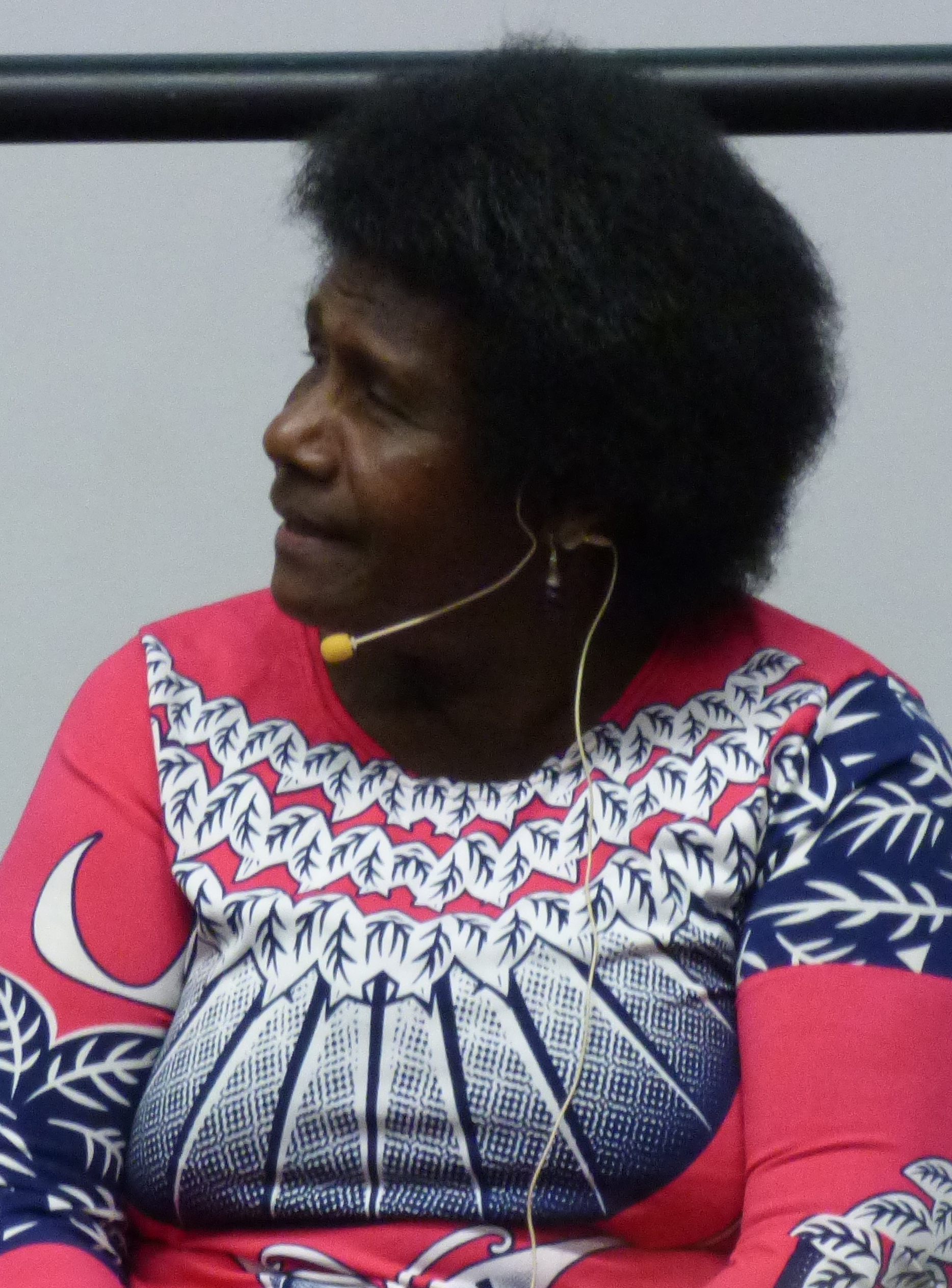 Ursula Rakova speaks in Adelaide in 2018